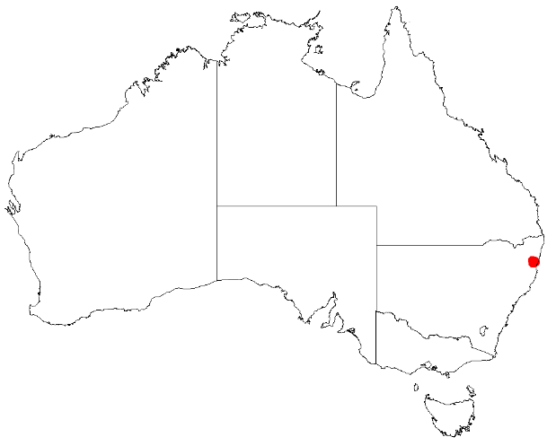 Hakea ochroptera Occurrence data downloaded from AVH on 22 November 2018 using